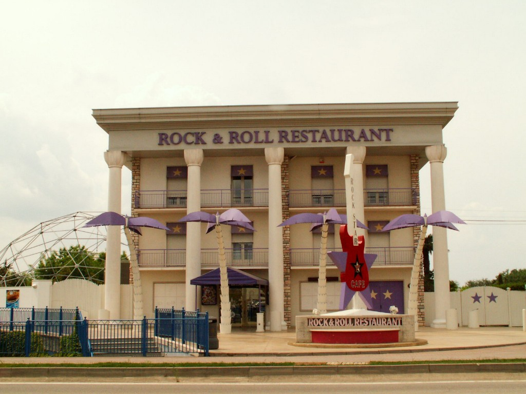 Summary Quelle: selbst fotografiert, 05/2006 Fotograf: Späth Chr. Licensing